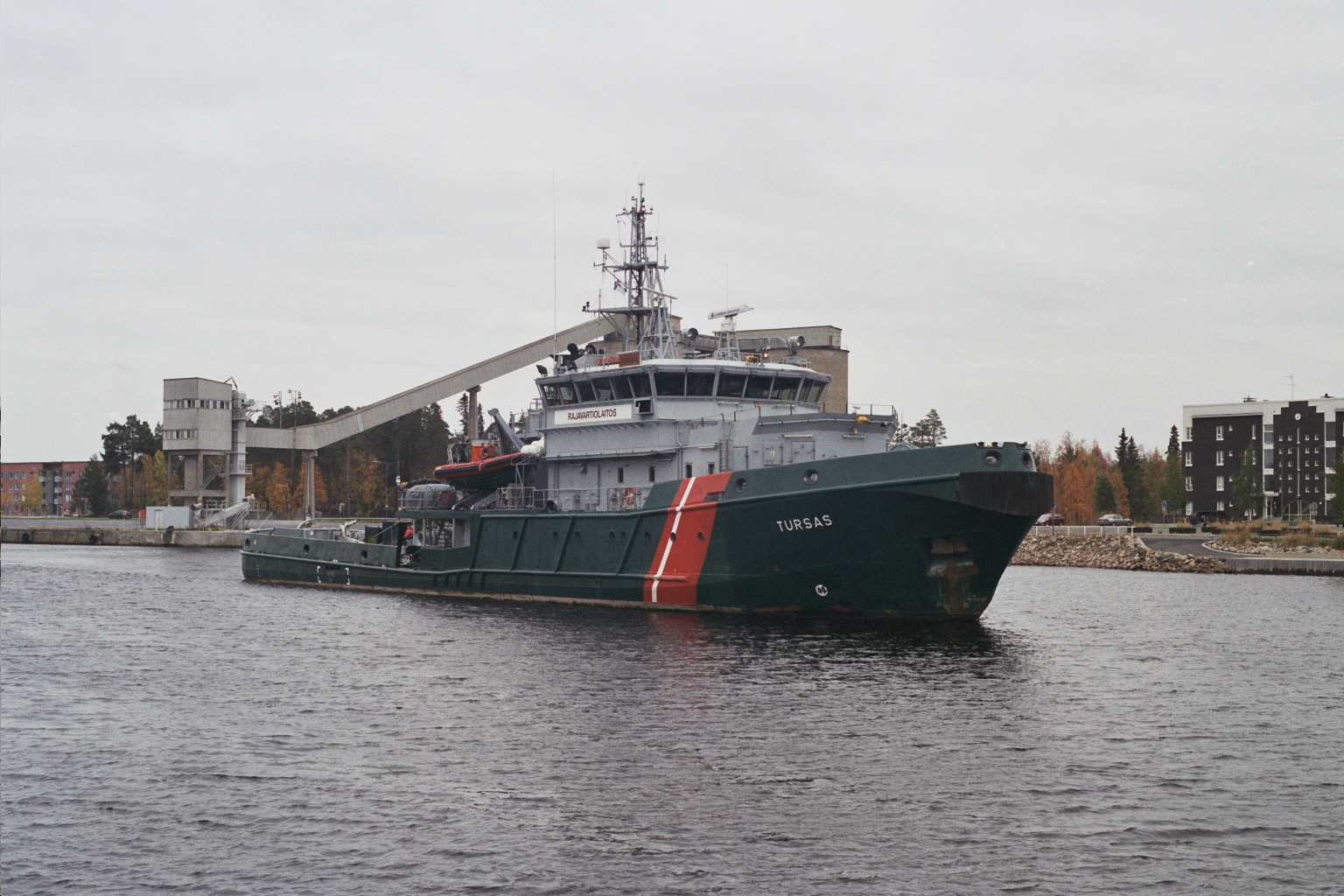 VL Tursas, one of the patrol vessels of the Finnish Border Guard, leaving the harbour of Toppila in Oulu, Finland.